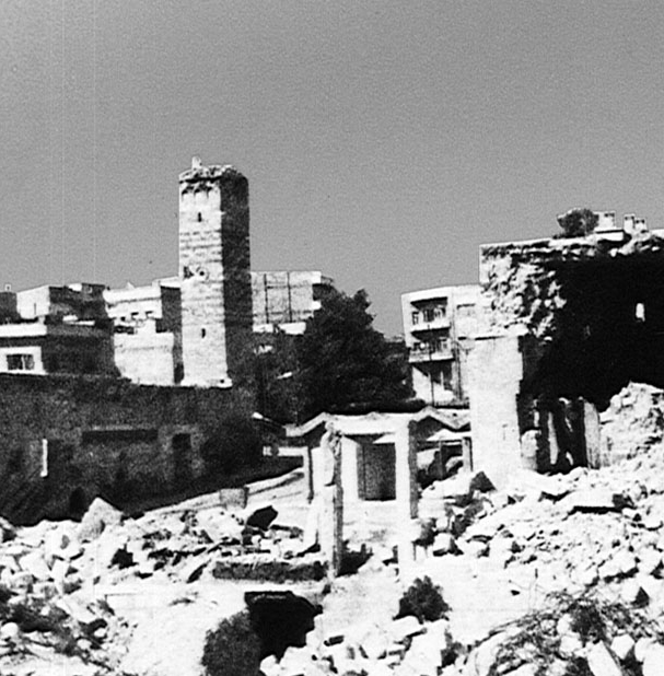 Image of Hama after Massacre in 1982, the compliment image of "Before Hama Massacre." Photograph shows the destroyed Al-Nuri Mosque, on the western bank of the Orontes River, next to the Hama Castle.